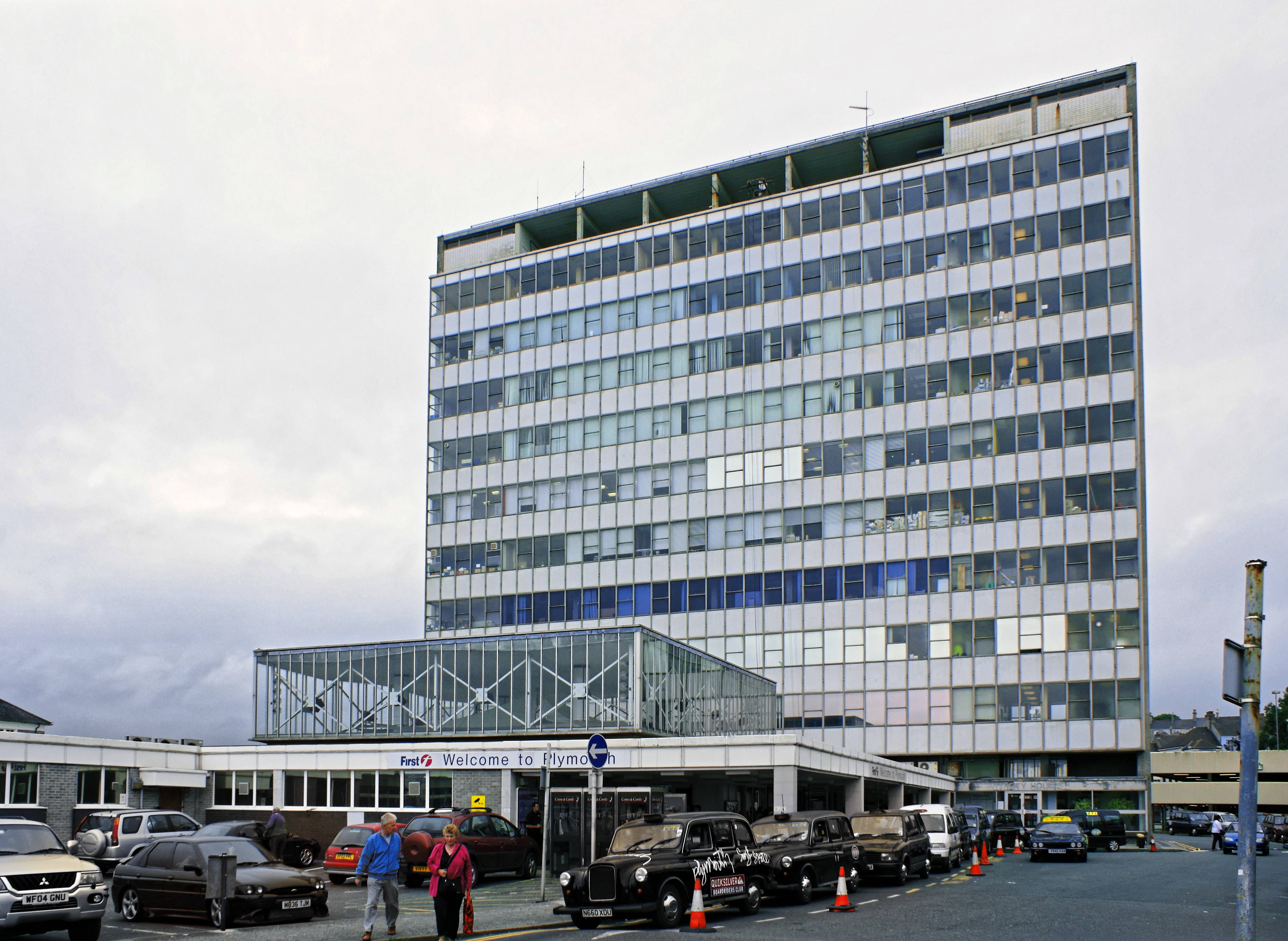 Plymouth (North Road) station, 07/08.